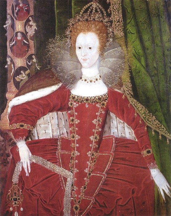 Portrait of Elizabeth I of England in Parliament robes with a column decorate with medallions representing the cardinal virtues of Justice, Prudence, Temperance and Fortitude and theological virtues of Faith, Hope and Charity.